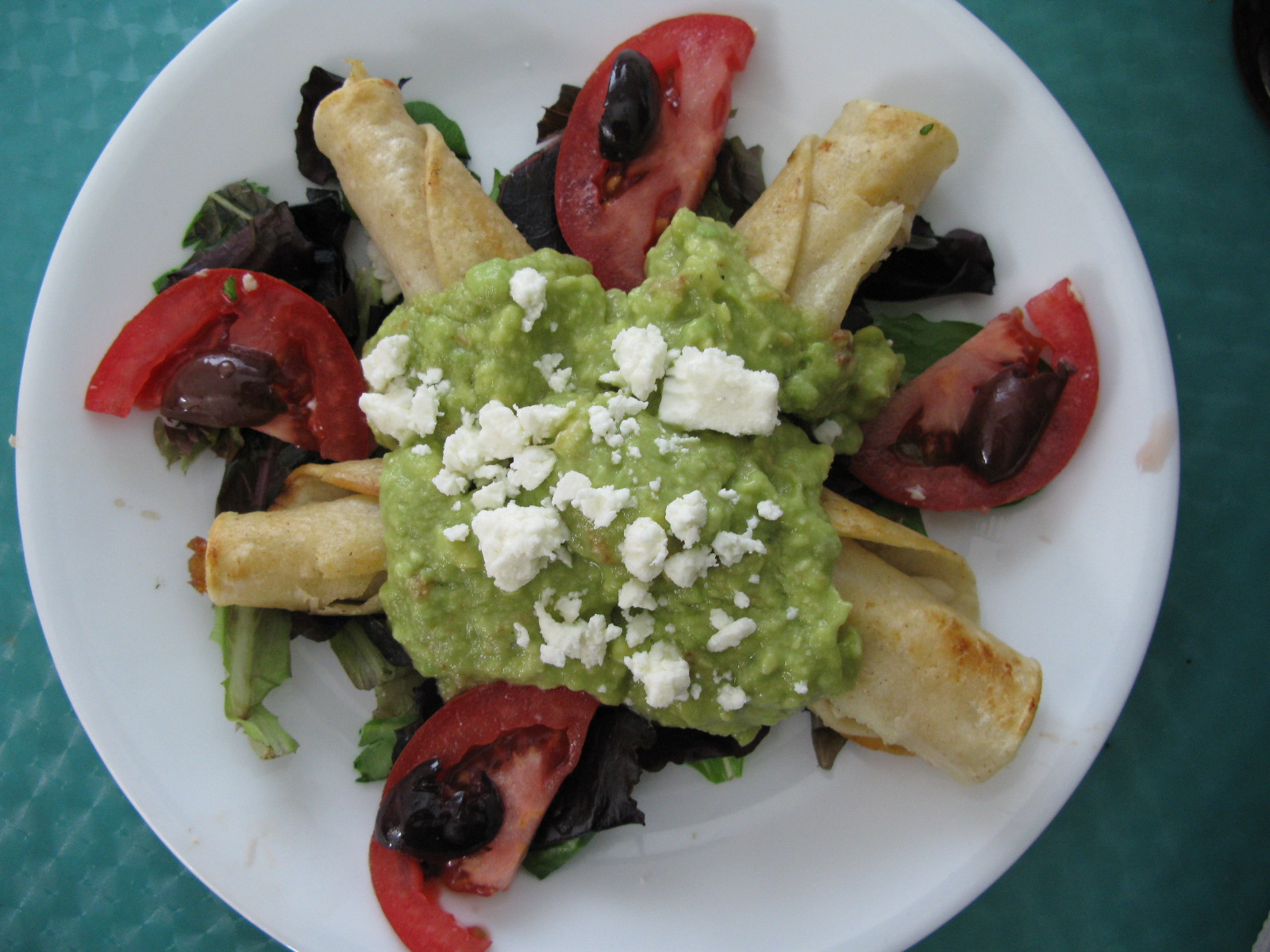 Chicken breast taquitos on a bed of baby greens with Guacamole. Garnished with Roma tomato, Kaltamata and Feta.